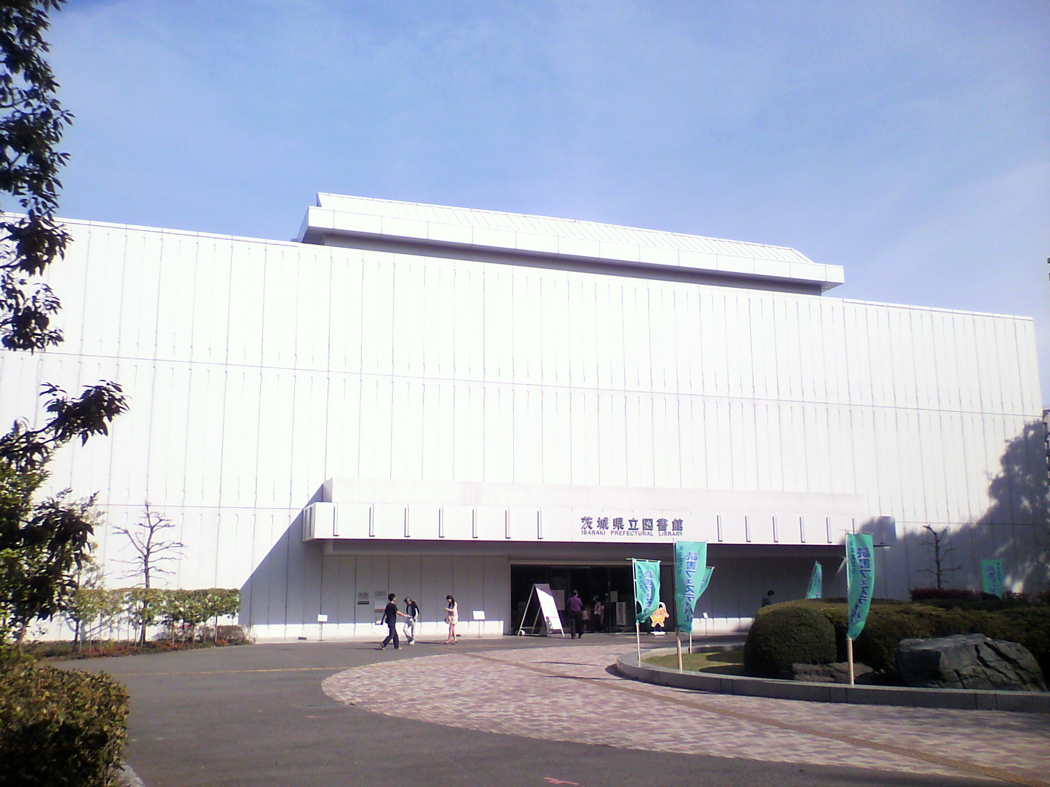 This is the Ibaraki Prefectural Library, which is loacted in Mito, Ibaraki, Japan. This building was used for Ibaraki Prefectueral Assembly Building.